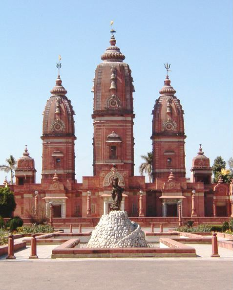 The temple at Modinagar, Ghaziabad district, Uttar Pradesh